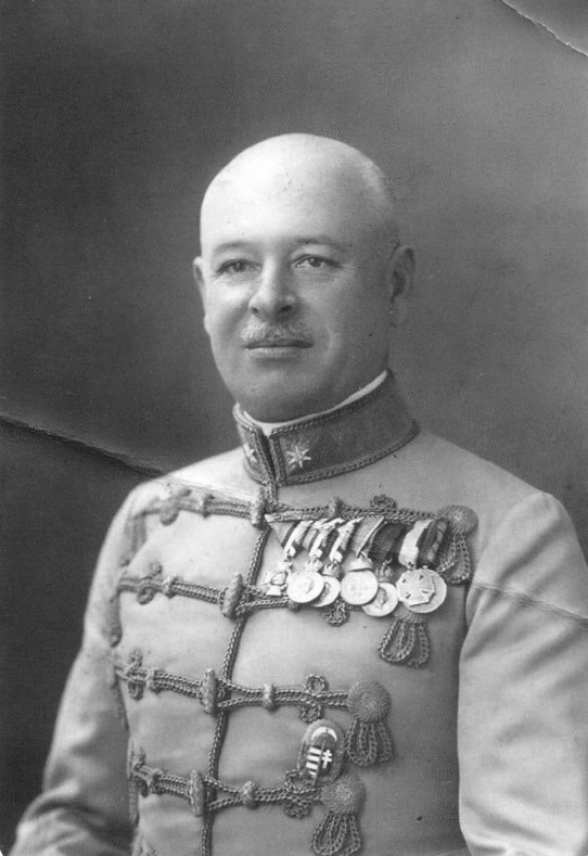 General Sándor Szabó